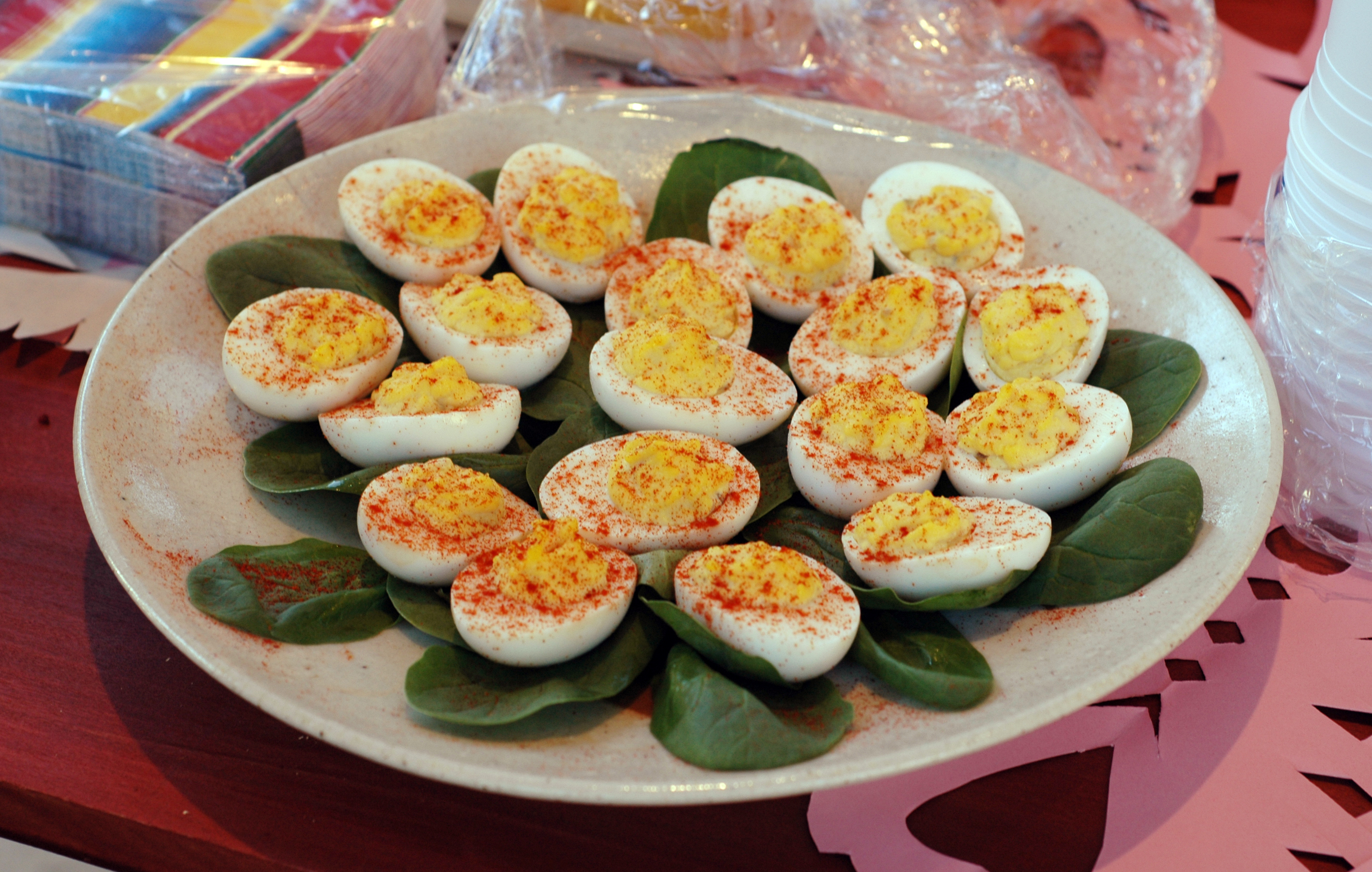 Deviled Eggs shot during the Inaugural Portable Potluck Project on March 23, 2008.